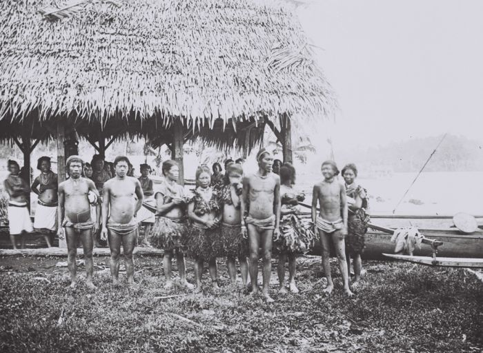 Mentawai men en women from the village of Sawang Tungku on North-Pagaï